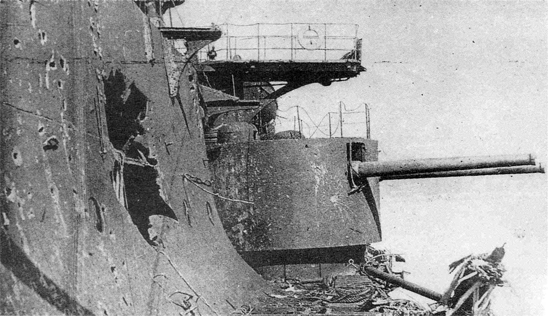 Damaged the Imperial Russian battleship Oriol, 1905.